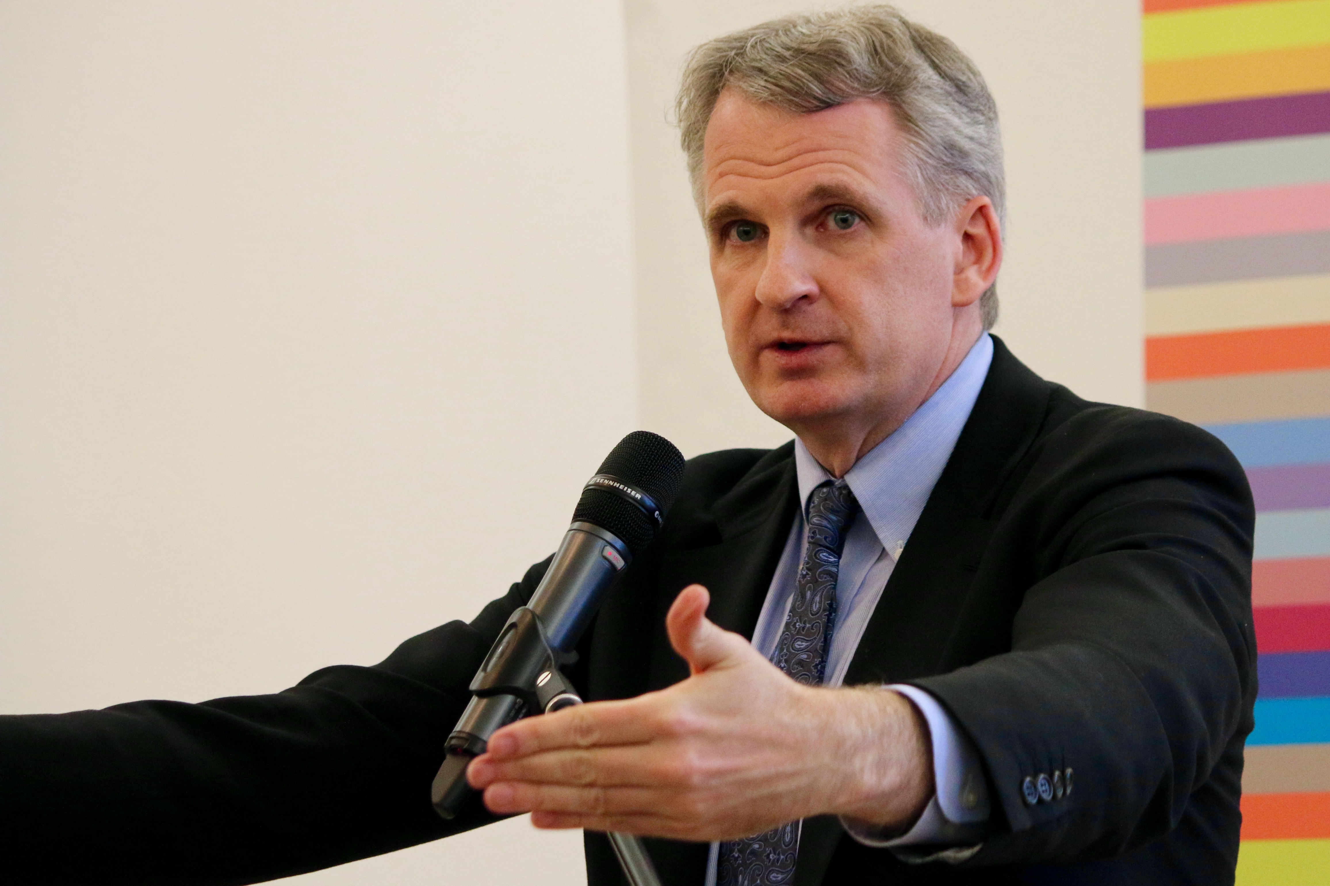 American Historian Timothy Snyder in 2016